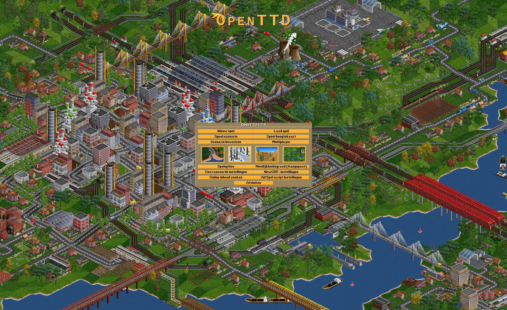 Screenshot of the game OpenTTD 1.2.0 (dutch version) with graphicsset: OpenGFX.